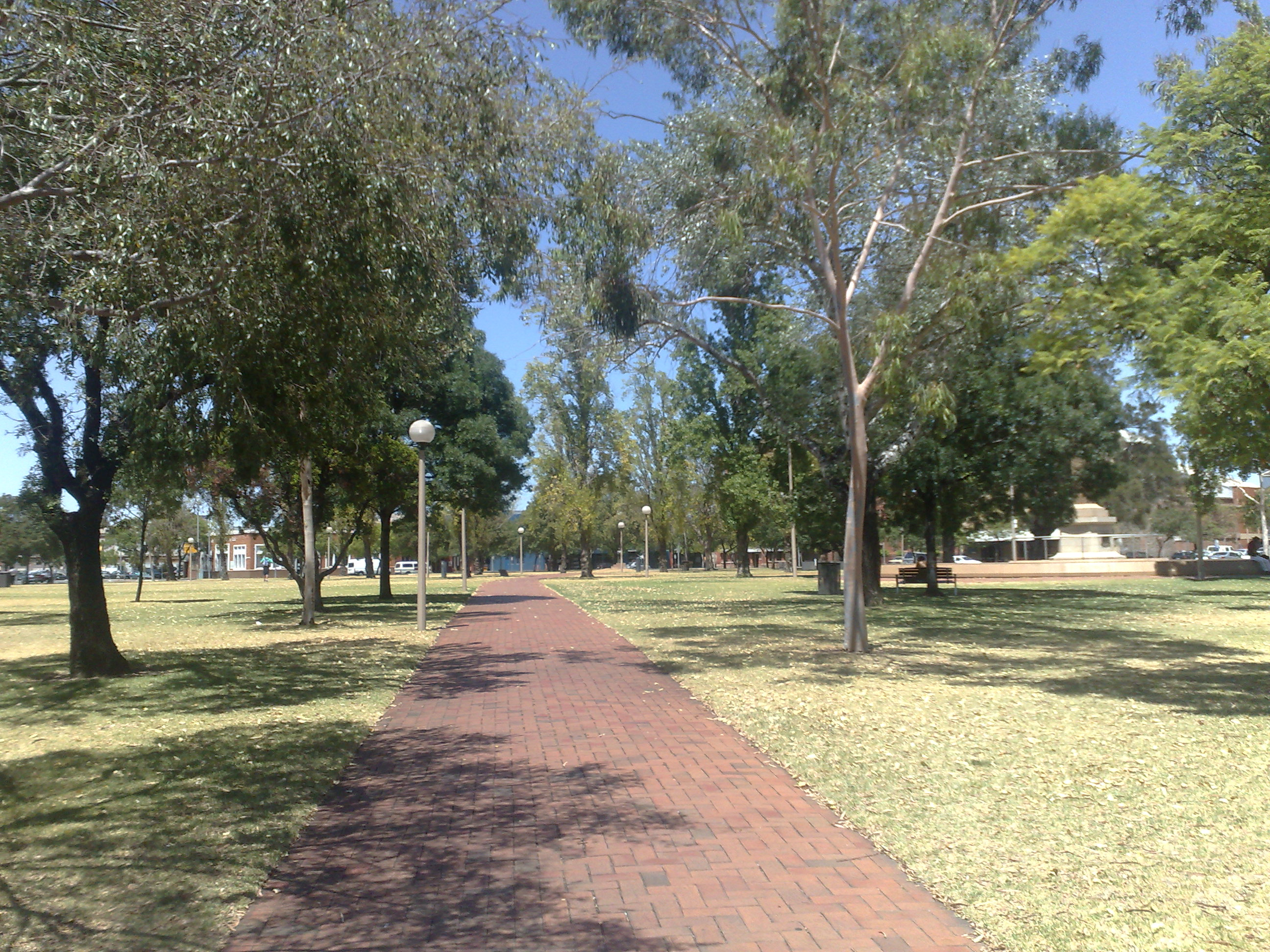 Light Square, looking south-west from Currie Street.